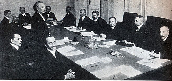 Official photo of Government of Polish Republic under Prime Minister Ignacy Paderewski (1919)